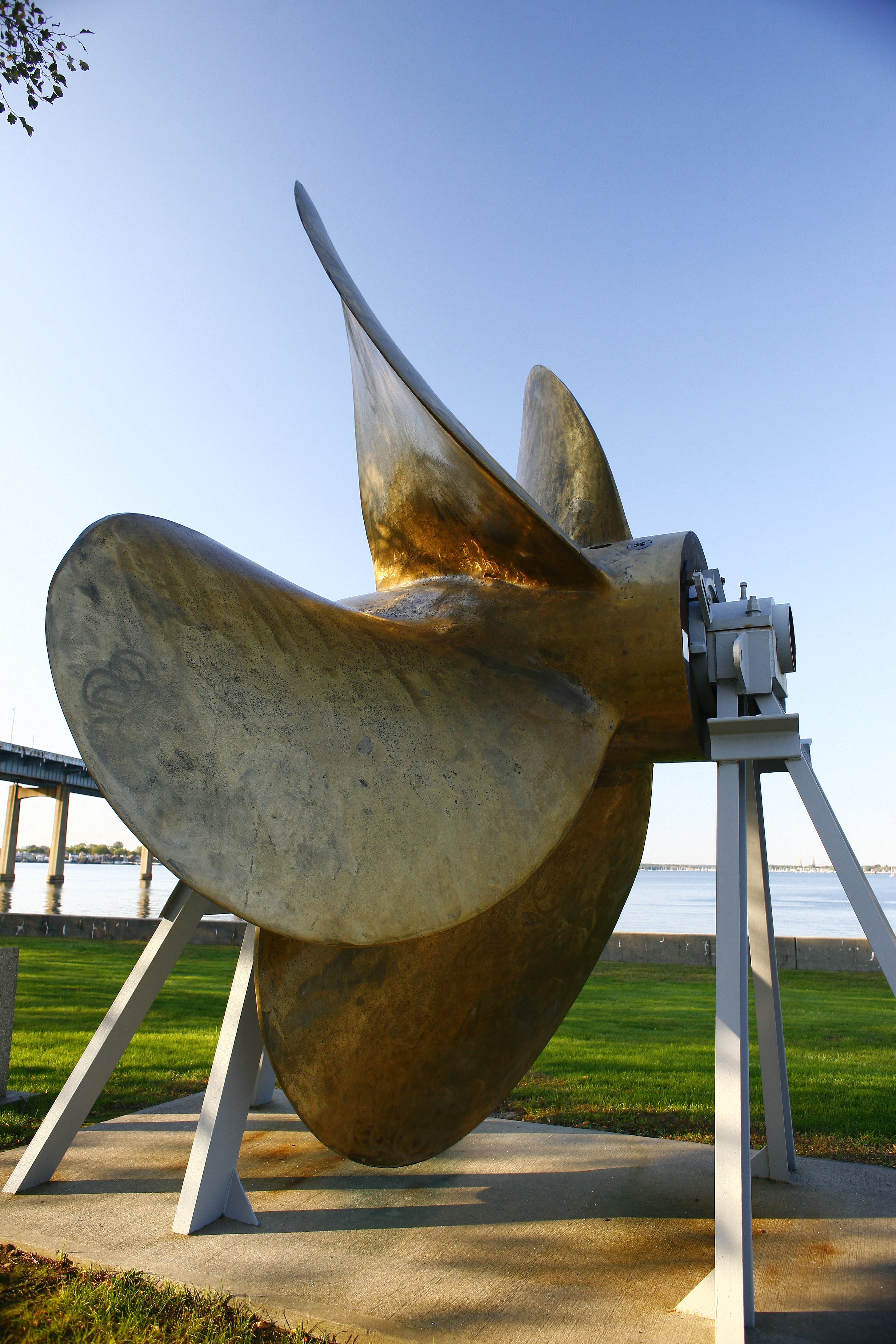 This photo is of Wikis Take Manhattan goal code N10, Fort Schuyler, Bronx.